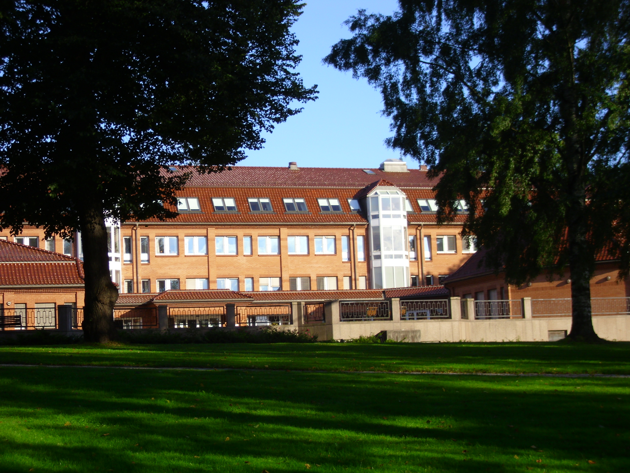 Townhall of Sarpsborg in Norway,view from Glengsgata